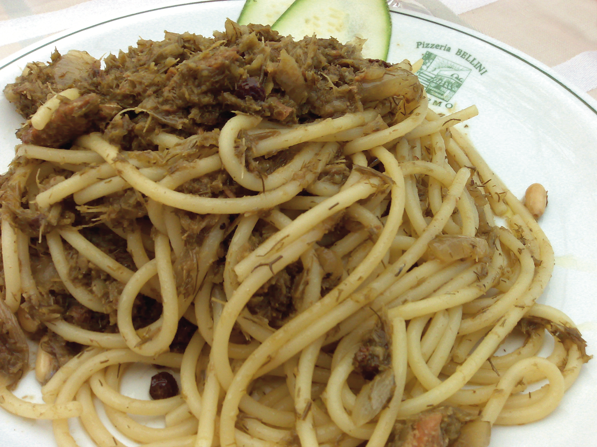 Pasta con le sarde, a sicilian dish, photographed in Palermo, Italy.